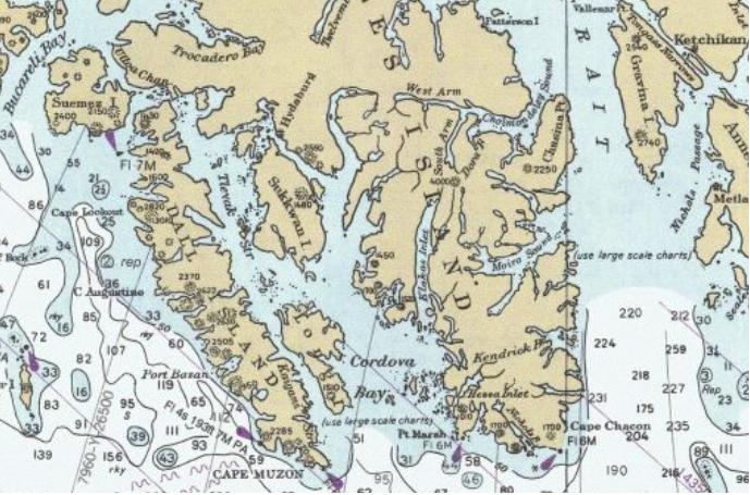 Detail from a nautical chart shows Cordova Bay and surrounding features including Dall Island, Long Island, Sukkwan Island, Tlevak Strait, Hetta Inlet, and Kaigani Strait and the southern part of Prince of Wales Island, all in the Alexander Archipelago. Ketchikan is in the upper right, separated from Prince of Wales island by Clarence Strait, Gravina Island, and Tongass Narrows. The small island at lower left is Forrester Island. The map is annotated to show the locations of historical villages, as well as to identify Hetta Inlet, Lime Point, and Sukkwan Strait. Scroll Mouse over map to see annotations.